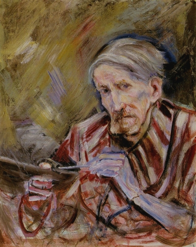 Self portrait of Magnus Zeller 1970